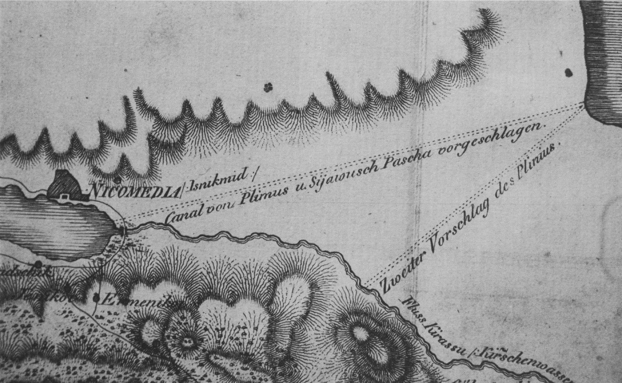 Course of the canal to the Gulf of Nicomedia proposed by Pliny the Younger. Reconstruction attempt by v. Hammer in 1818.